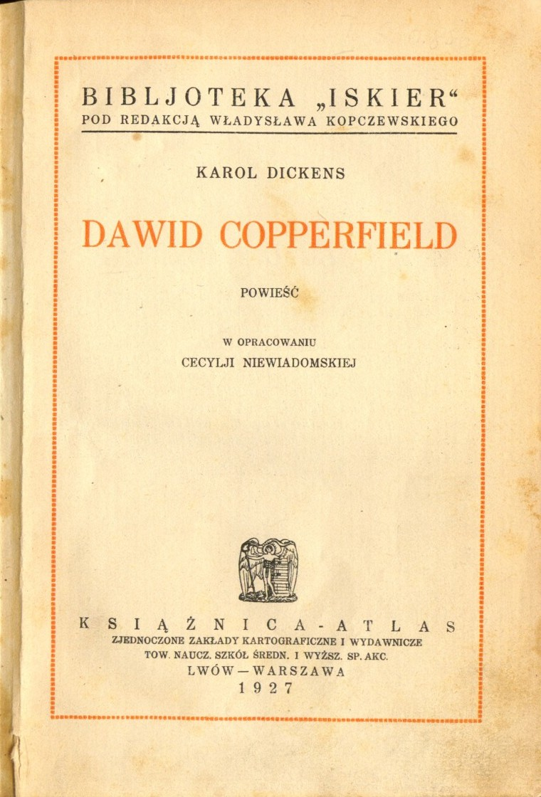 novel